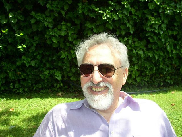 Professor Claudio Lo Jacono